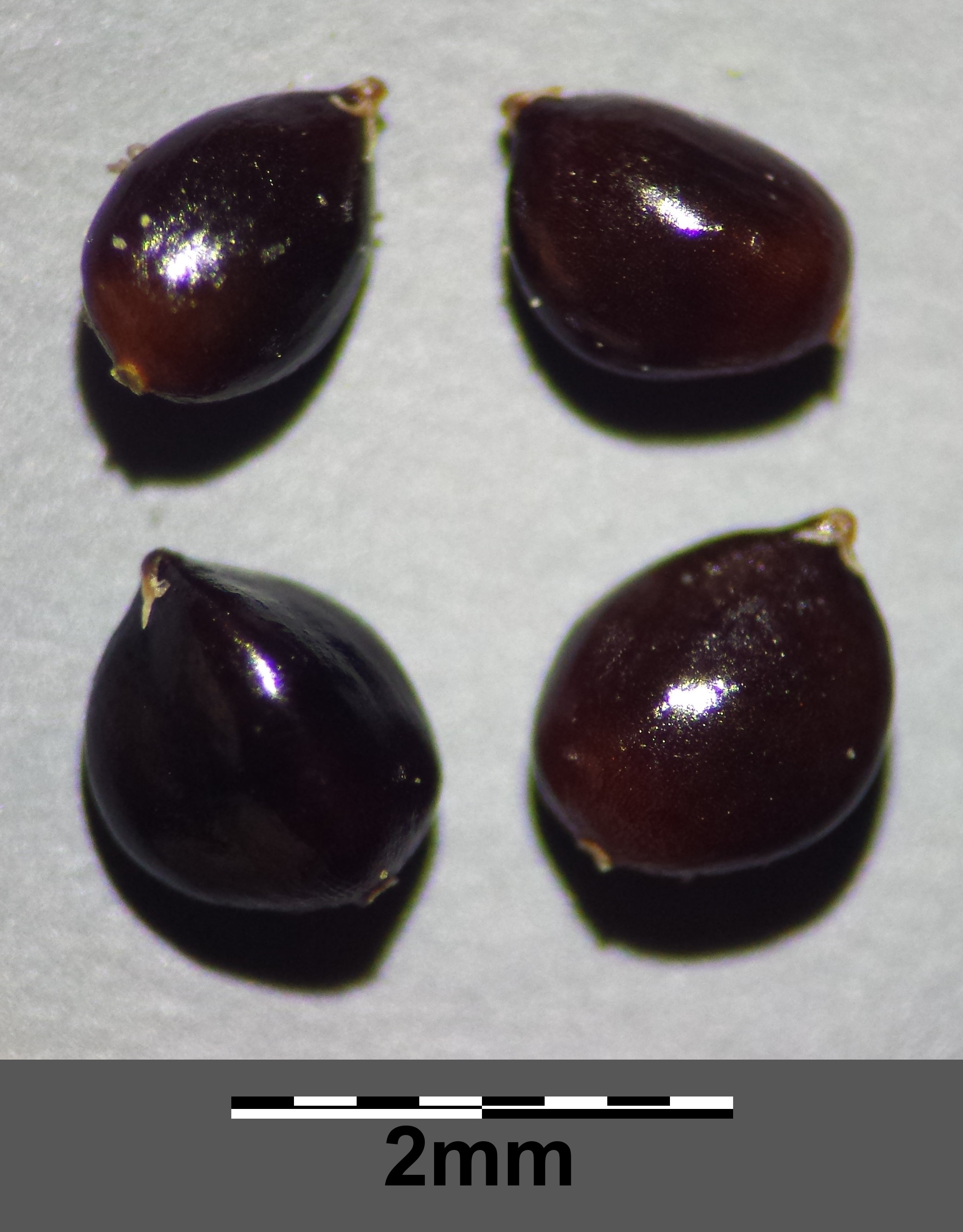 Fruits Taxonym: Persicaria minor ss Fischer et al. EfÖLS 2008 ISBN 978-3-85474-187-9 Location: Glasweiner Wald west of Herzogbirbaum, district Korneuburg, Lower Austria - ca. 325 m a.s.l. Habitat: forest track